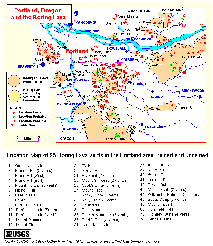 Map of the Boring Lava Field in Oregon and southwest Washington Legend: 1. Green Mountain 2. Brunner Hill (2 vents) 3. Prune Hill (West) 4. Prune Hill (East) 5. Mount Norway (2 vents) 6. Nochol's Hill 7. Bear Prairie 8. Pohl's Mountain 9. Bob's Mountain (South) 10. Bob's Mountain (North) 14. Mount Pleasant 15. Mount Zion 21. TV Hill 22. Swede Hill 24. Elk Point (2 vents) 25. Mount Sylvania (2 vents) 26. Cook's Butte (2 vents) 27. Mount Tabor 28. Rocky Butte (2 vents) 29. Kelly Butte (2 vents) 30. Chamberlain Hill 31. Ross Mountain 32. Pepper Mountain (2 vents) 33. Devil's Rest (2 vents) 34. Larch Mountain 36. Palmer Peak 37. Nesmith Point 40. Walker Peak 41. Lookout Point 42. Powell Butte 43. Mount Scott (2 vents) 44. Willamette National Cemetery 46. Scout Camp (2 vents) 48. Mount Talbert 69. Hunsinger Peak 73. Highland Butte (4 vents) 74. Lenhart Butte